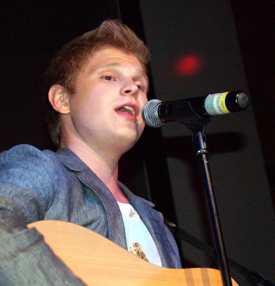 Paradise Oskar representing Finland in Eurovision Song Contest 2011.